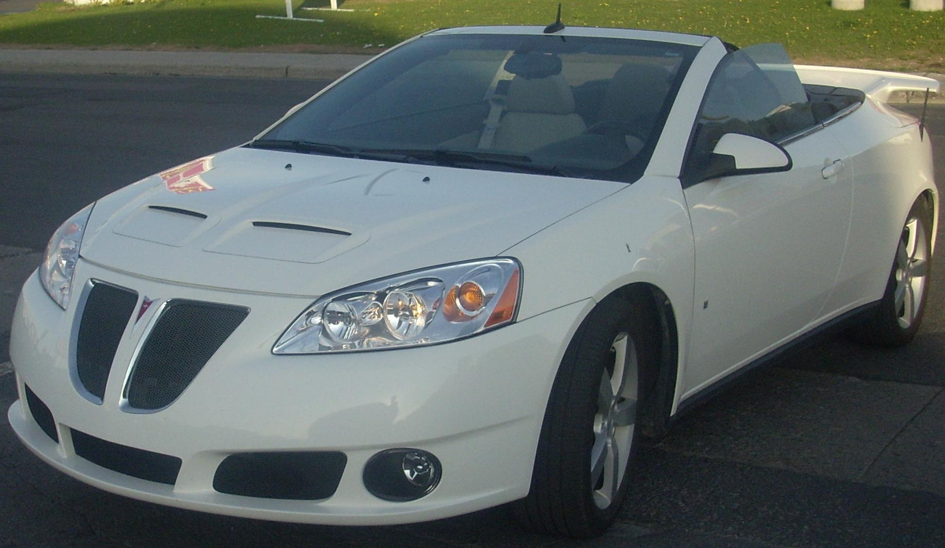 2008-2010 Pontiac G6 photographed in Montreal, Quebec, Canada at Gibeau Orange Julep.